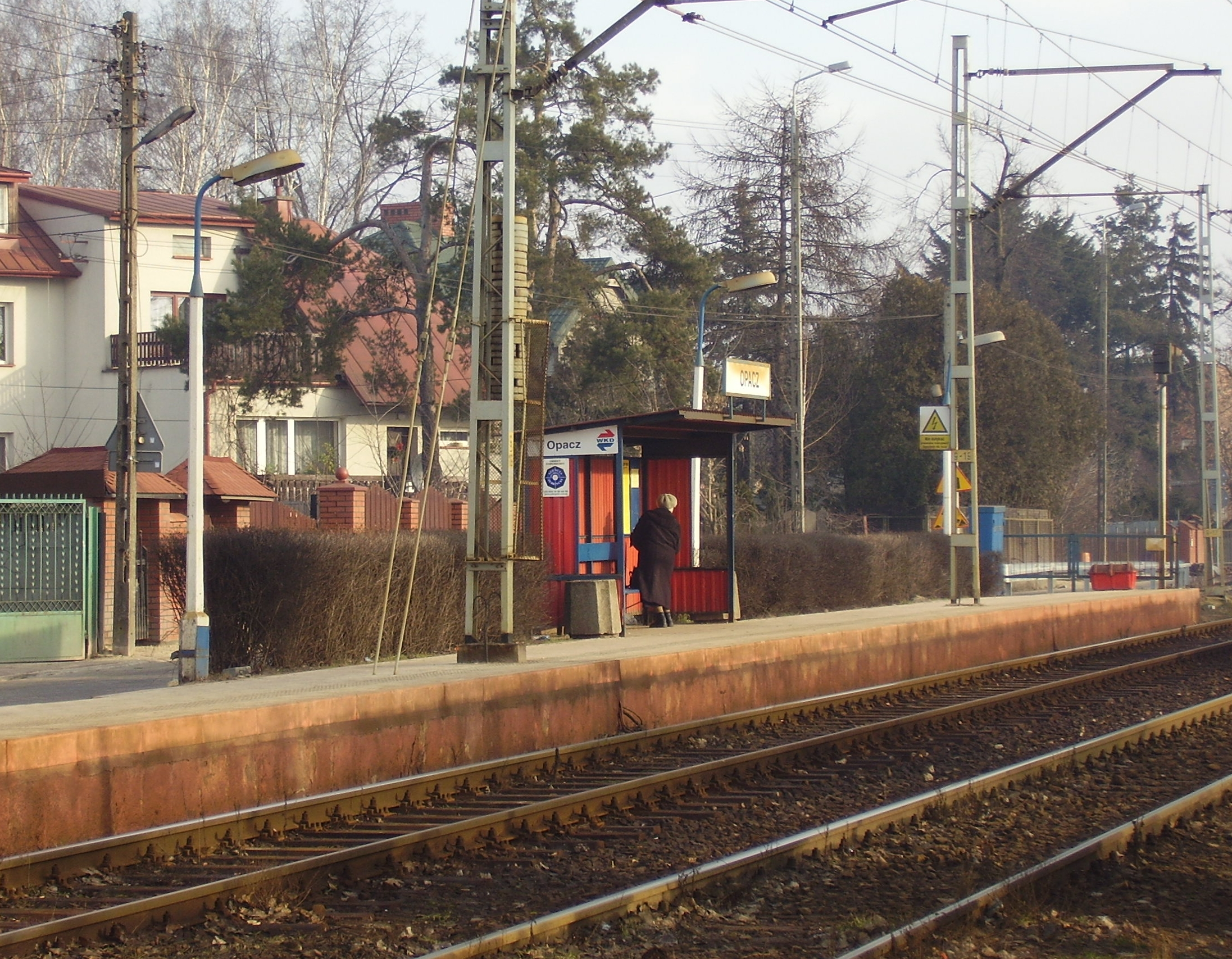 Opacz WKD station in Poland. Platform 1.